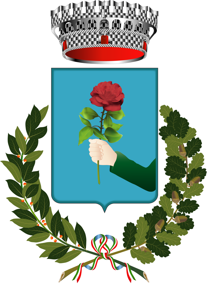 Coat of arms of Bracciano (Roma), Italy